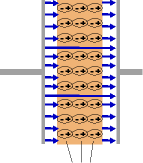 A capacitor with dielectric